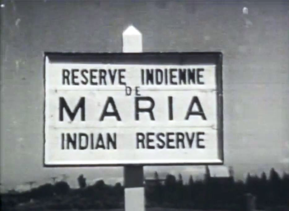 Maria Indian Reserve, 1938 Now Gesgapegiag